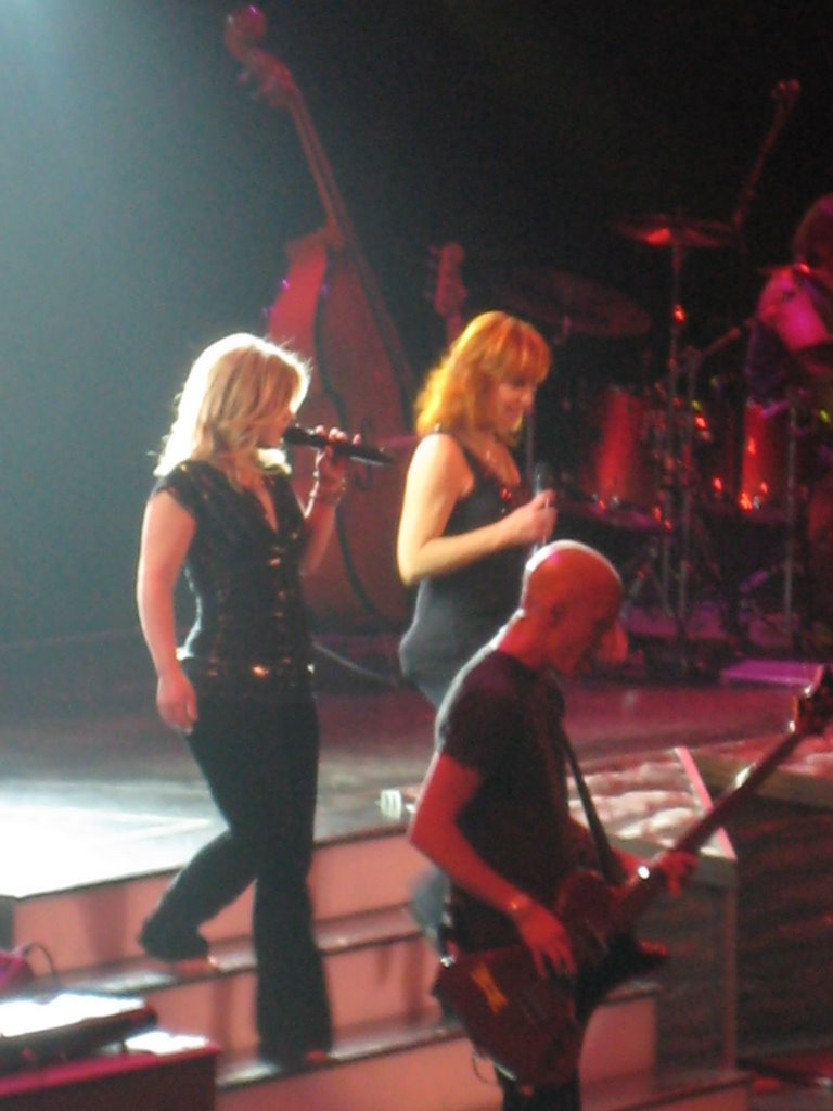 Reba McEntire and Kelly Clarkson performing live on 2 Worlds 2 Voices concert tour at Target Center, Minneapolis